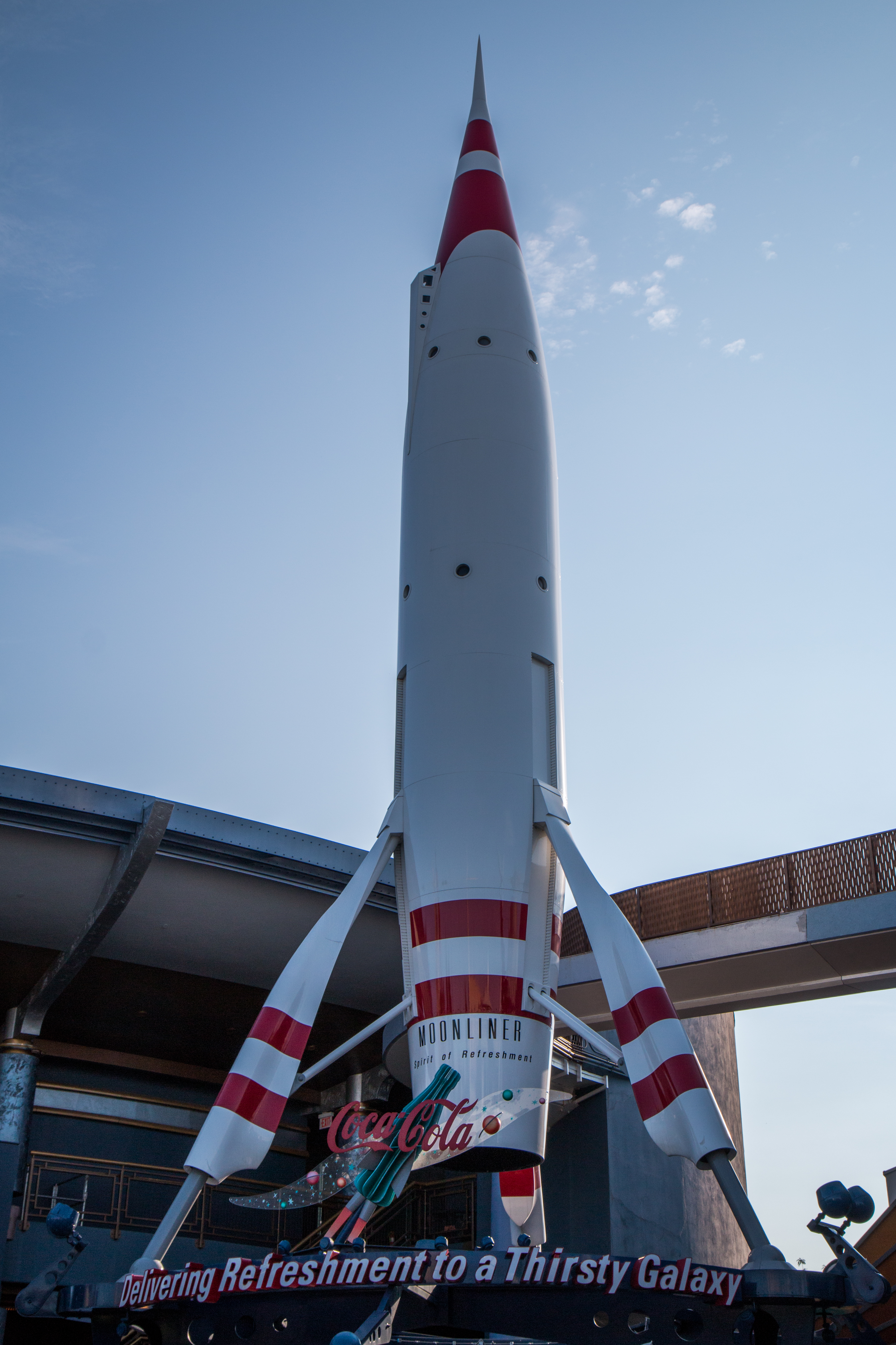 The lovely Moonliner in Tomorrowland at Disneyland.